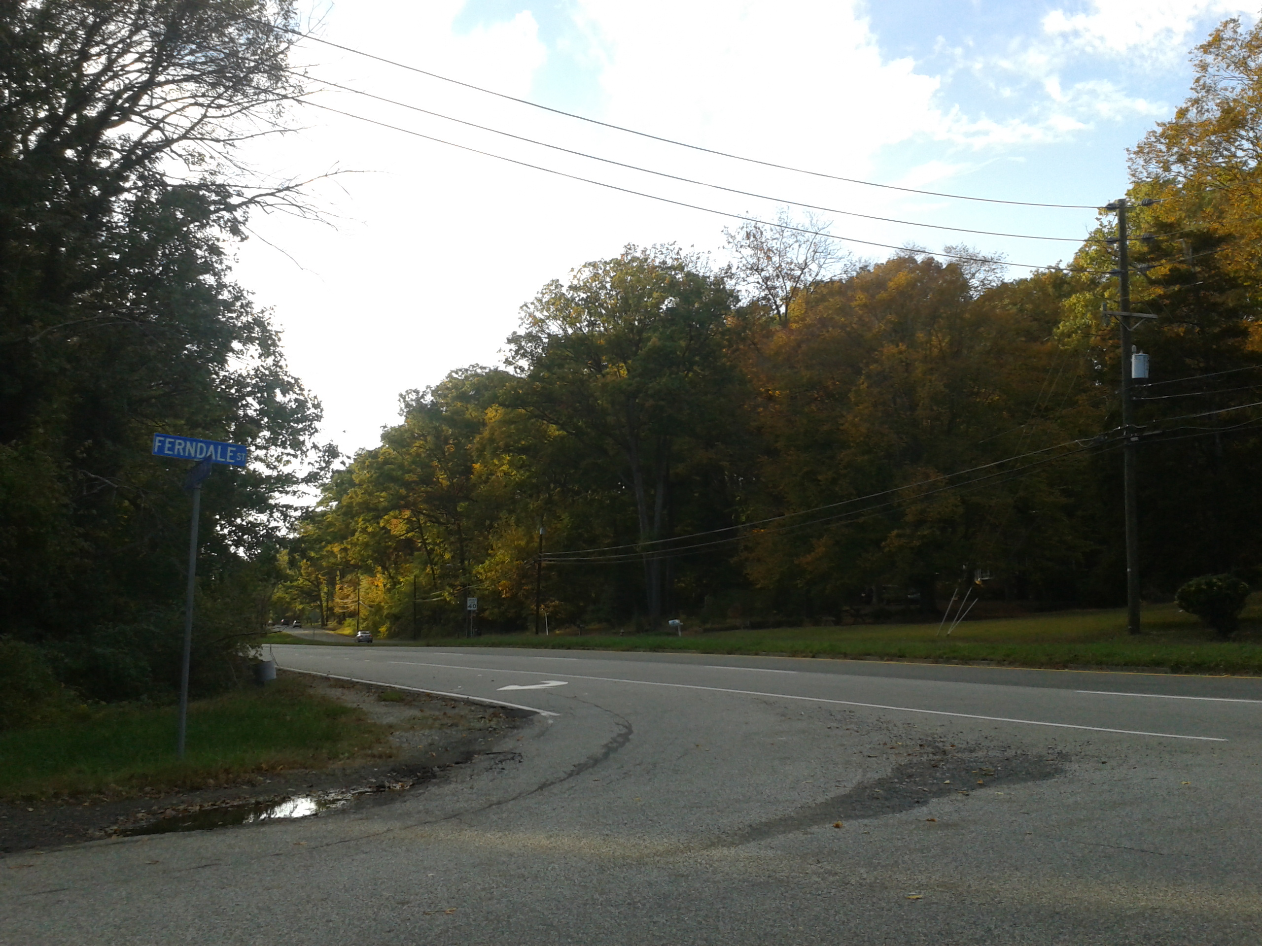 A view of Virginia State Route 620 in Fairfax County. Taken by me in October, 2016